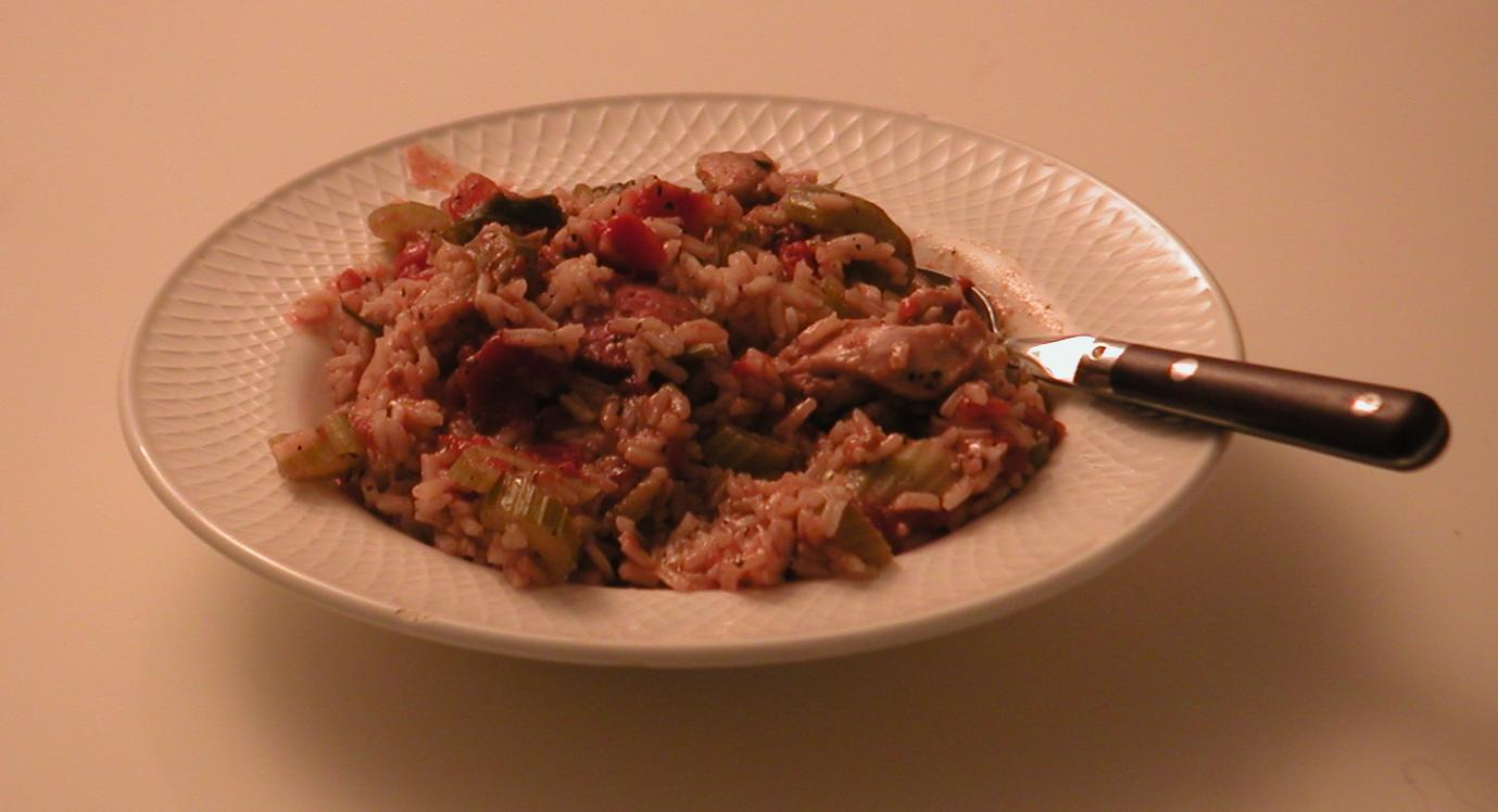 Jambalaya with chicken, sausage, rice, tomatoes, celery, and spices. For full recipe, see wikibooks:Cookbook:Jambalaya. Photo by user:Polyparadigm.